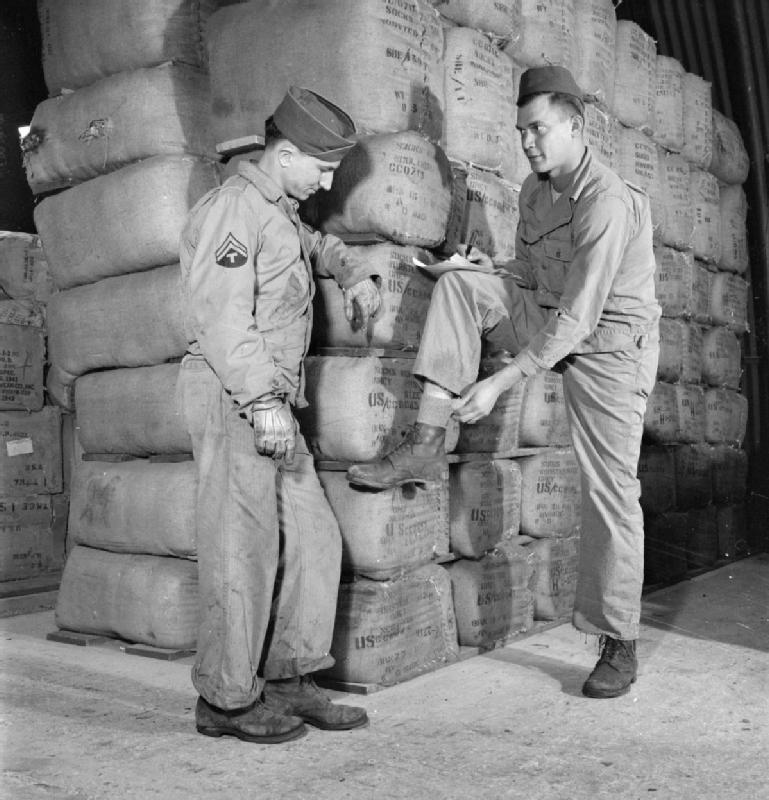 Britain Supplies US Army Store- Americans in Britain, 1943 Corporal H E Hatfield (left, of Route 2 Foxworth, Mississippi) inspects the socks and boots of Staff Sergeant Robert Gillespie (right, of 313 Hellier Street, Pikeville, Kentucky) in a warehouse at an American Army Store, somewhere in Britain. S/Sgt Gillespie is lifting his foot in the air to show off the British socks and re-built boots he is wearing. The socks arrive in huge bales, like the ones on which the men are leaning, and his American boots have been repaired and re-built by British firms. Both items come under the reverse lend-lease or Reciprocal Aid agreement.